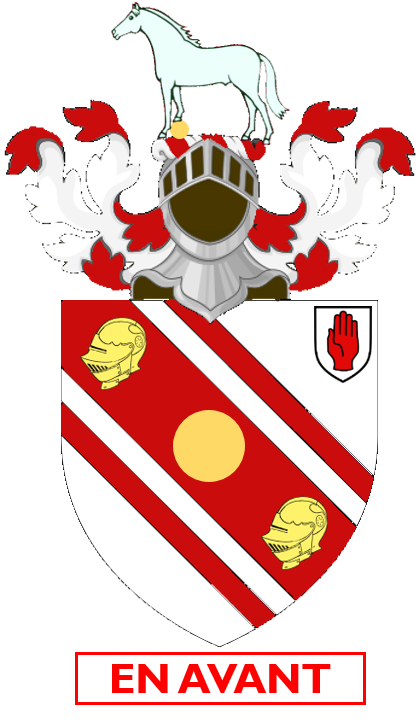 The armorial achievement of the Tritton baronets of Bloomfield